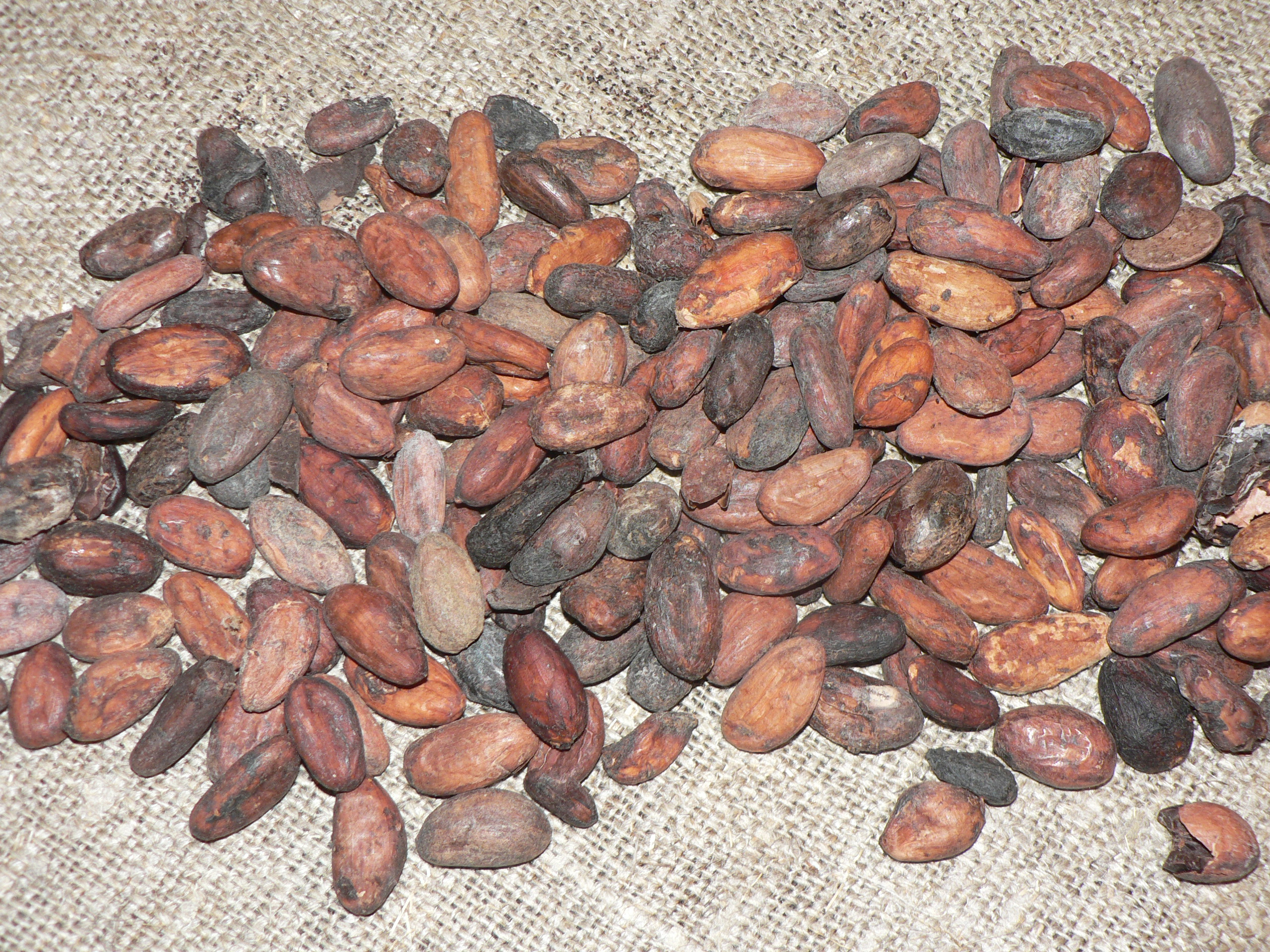 Cocoa beans